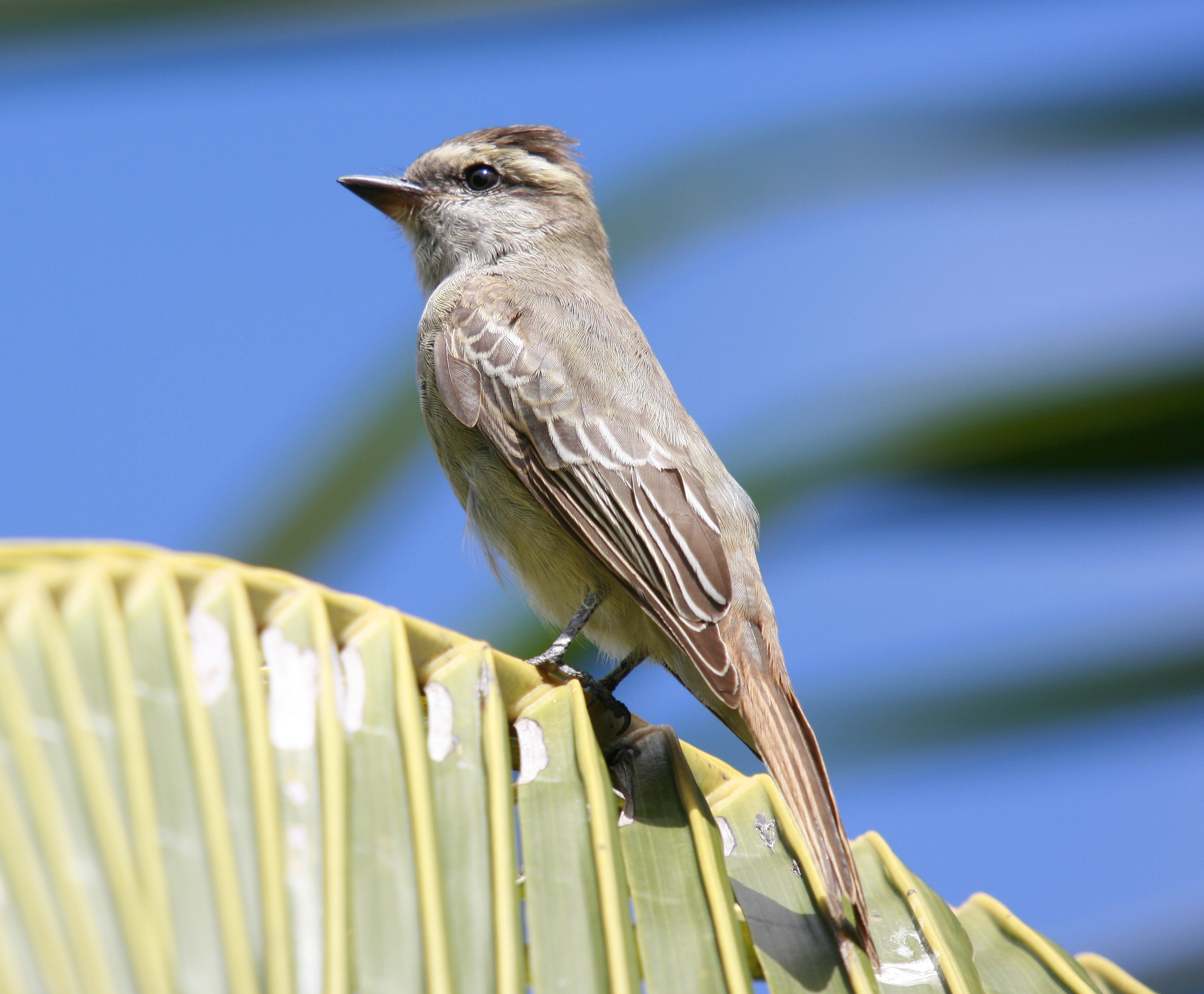 An immature Crowned Slaty Flycatcher in Goiânia, Goiás, Brazil.